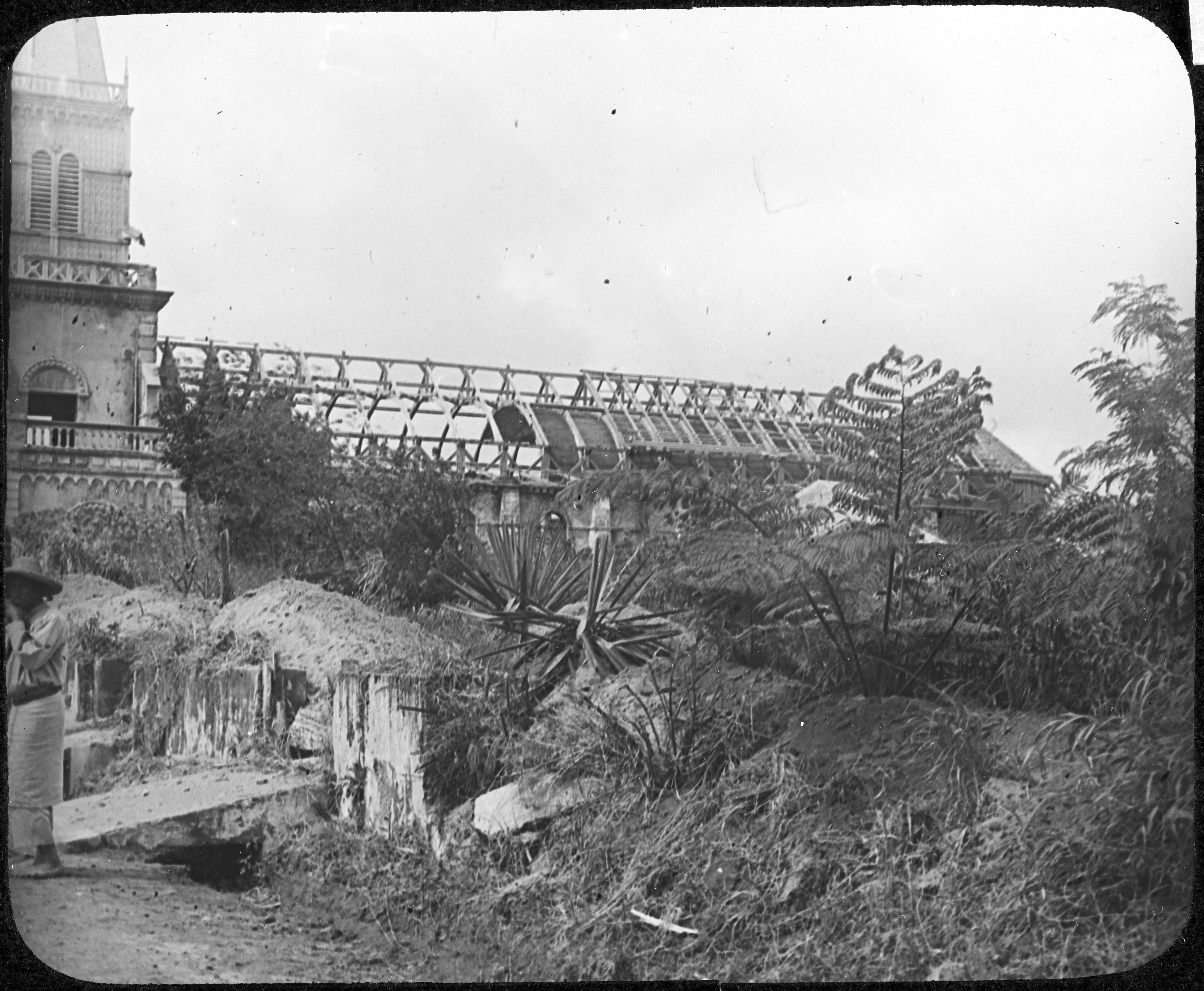 One slide and one negative. Ruined church, presumably destroyed during the 1902 eruptions. The tower and spire are still standing and the roof timbers remain, but the roof itself has been removed. Partly overgrown. Ruined? houses in foreground.